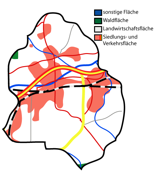 Map of land use in Löhne, Kreis Herford